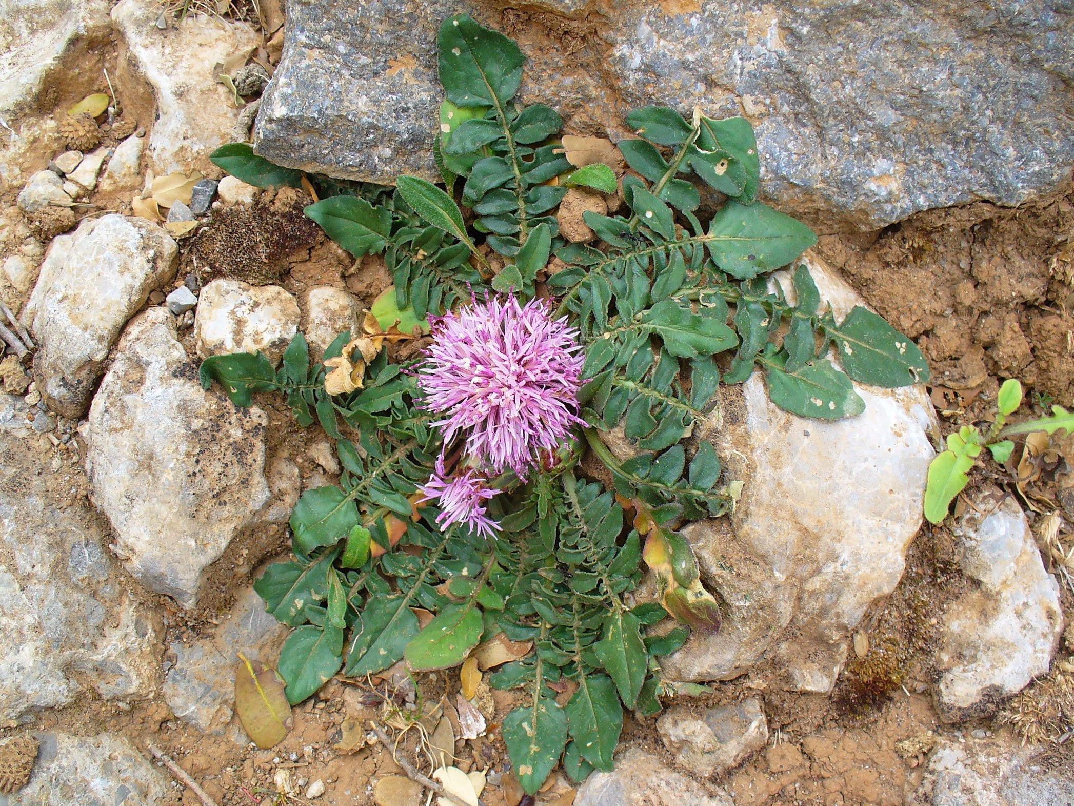 Centaurea raphanina SM., habitus; Near Psychro Cave (Dicteo Andro), Crete, Greece. The height of the plant is typcially 3 to 5 cm and the diameter of the inflorescence is typically 1.2 to 2 cm.